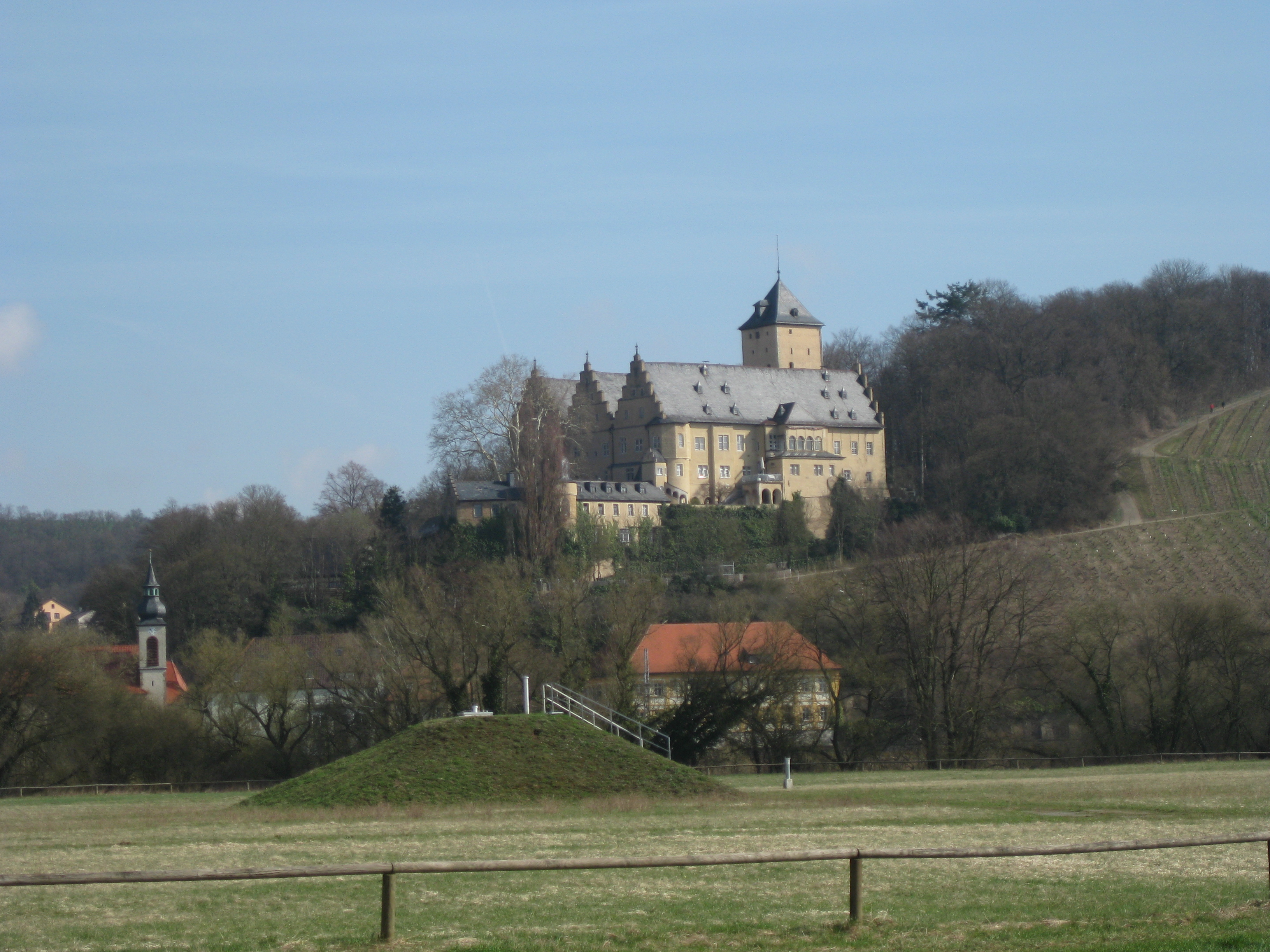 Castle Mainberg in Schonungen as seen from opposite riverbed of main river